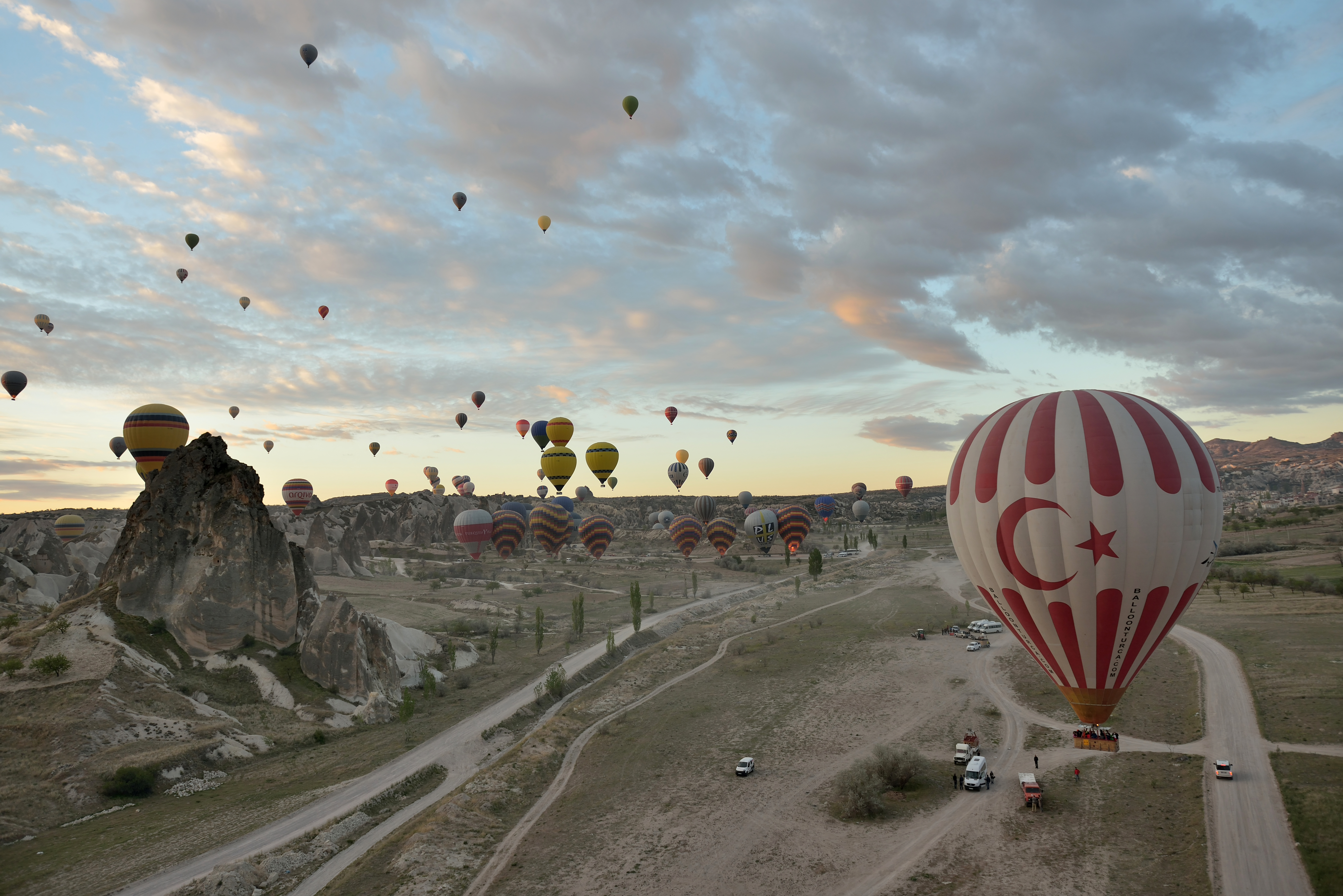 Mass start of hot air balloon ride at dawn in Uçhisar in Cappadocia Turkey